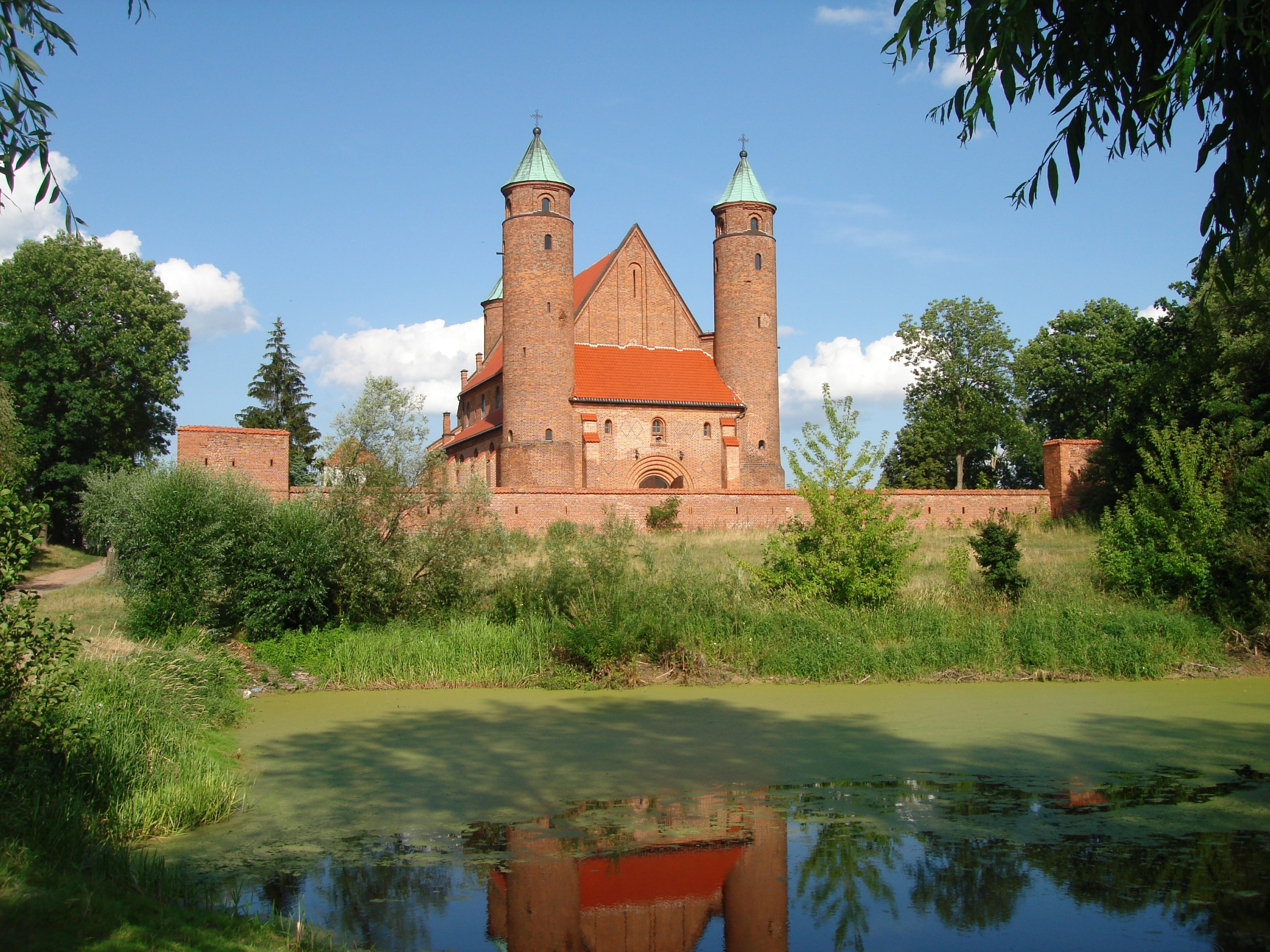 Brochow, Poland Brochów [ˈbrɔxuf] is a village (population 400) in Sochaczew County, Masovian Voivodeship, east-central Poland. It was in the church at Brochów that Mikołaj Chopin and Justyna Krzyżanowska, parents of future composer Frédéric Chopin, were married on 2 June 1806. Frédéric was baptized there on 23 April 1810.